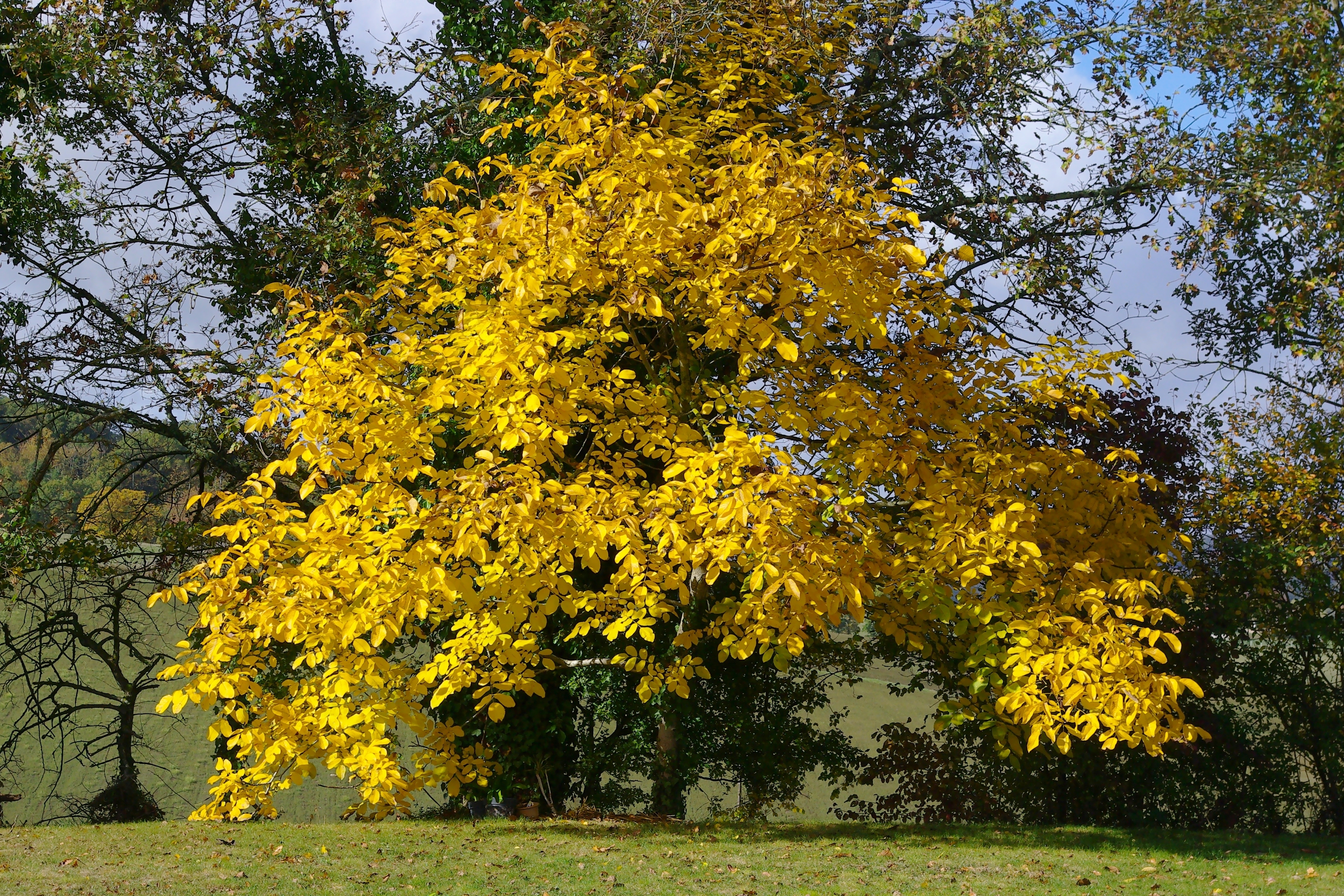 English walnut (Juglans regia), L. 1753. Autumn, garden, France.